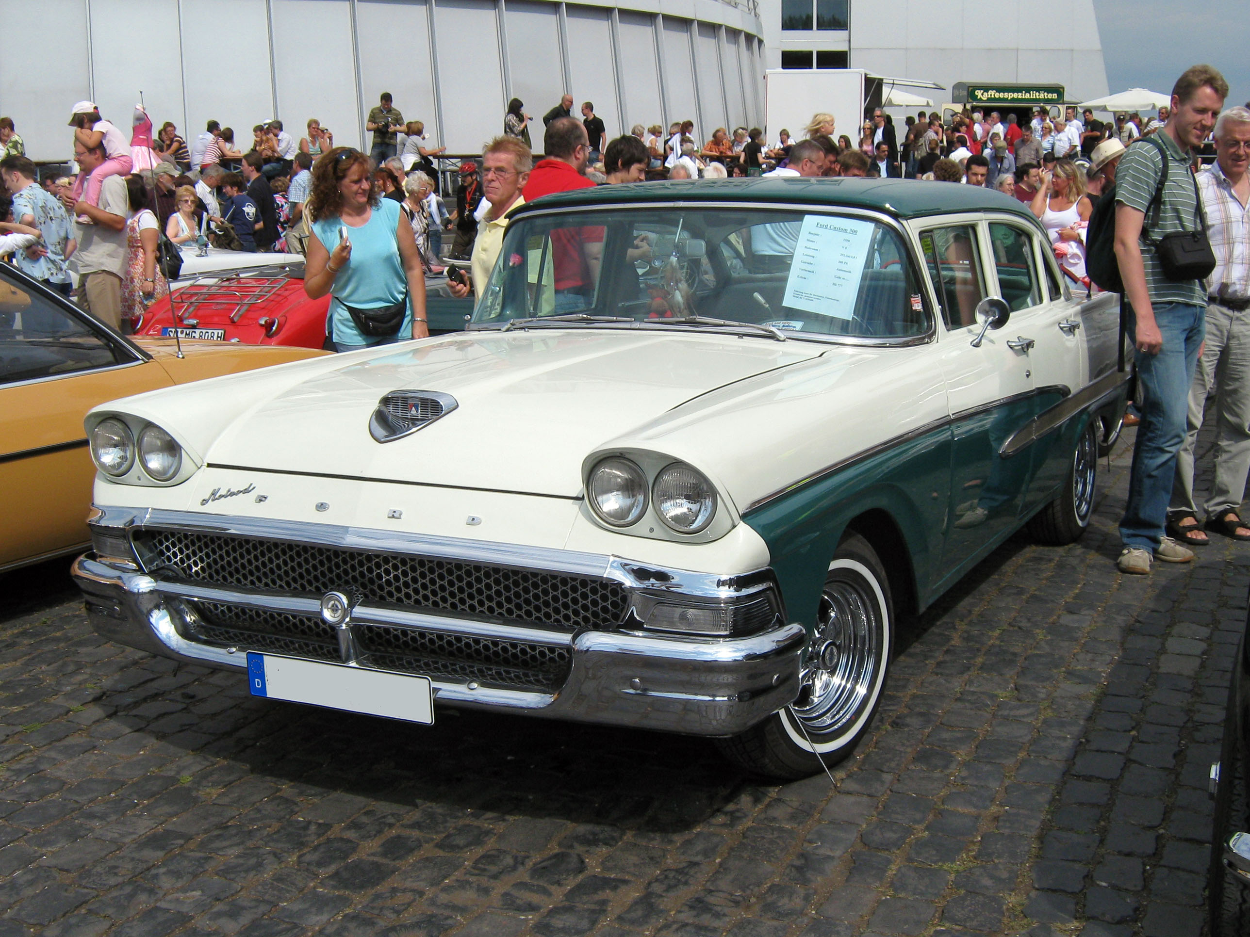 1958 Ford Custom 300 V8 frontview